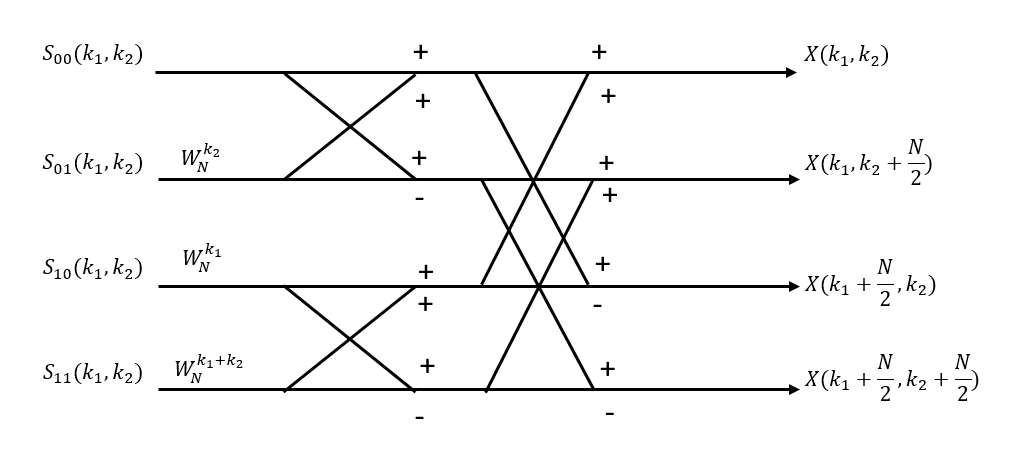 On stage "butterfly" for DIT vector-radix 2x2 FFT